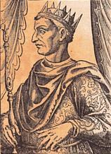 This is a portrait image of William I of Sicily, it was drawn during the time of his adult years. Since he died in 1166, this image has long been in the public domain as per the attached license on Italian copyright laws. Source: [1]